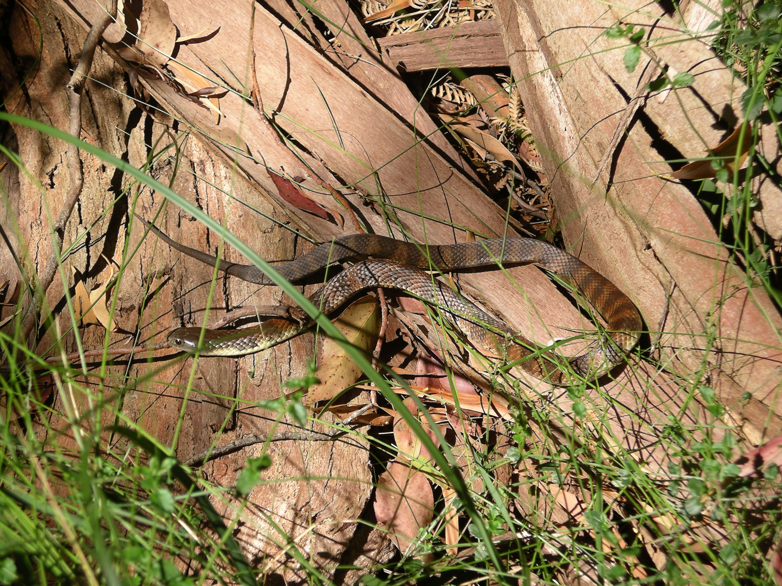 Juvenile Tiger Snake sunning itself on tree bark near Arthur's Seat in Victoria, Australia.